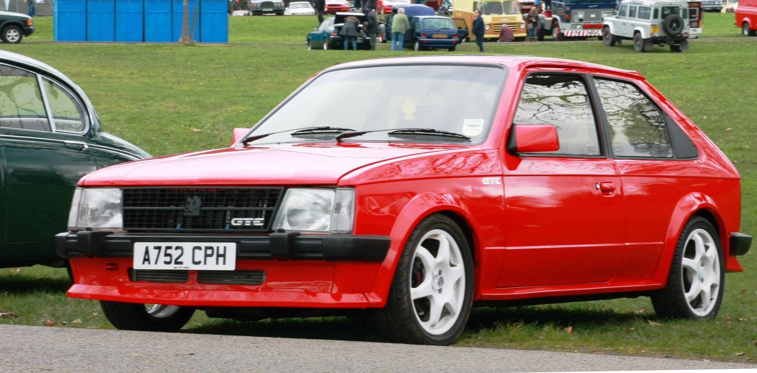 Vauxhall Astra GTE (1983)